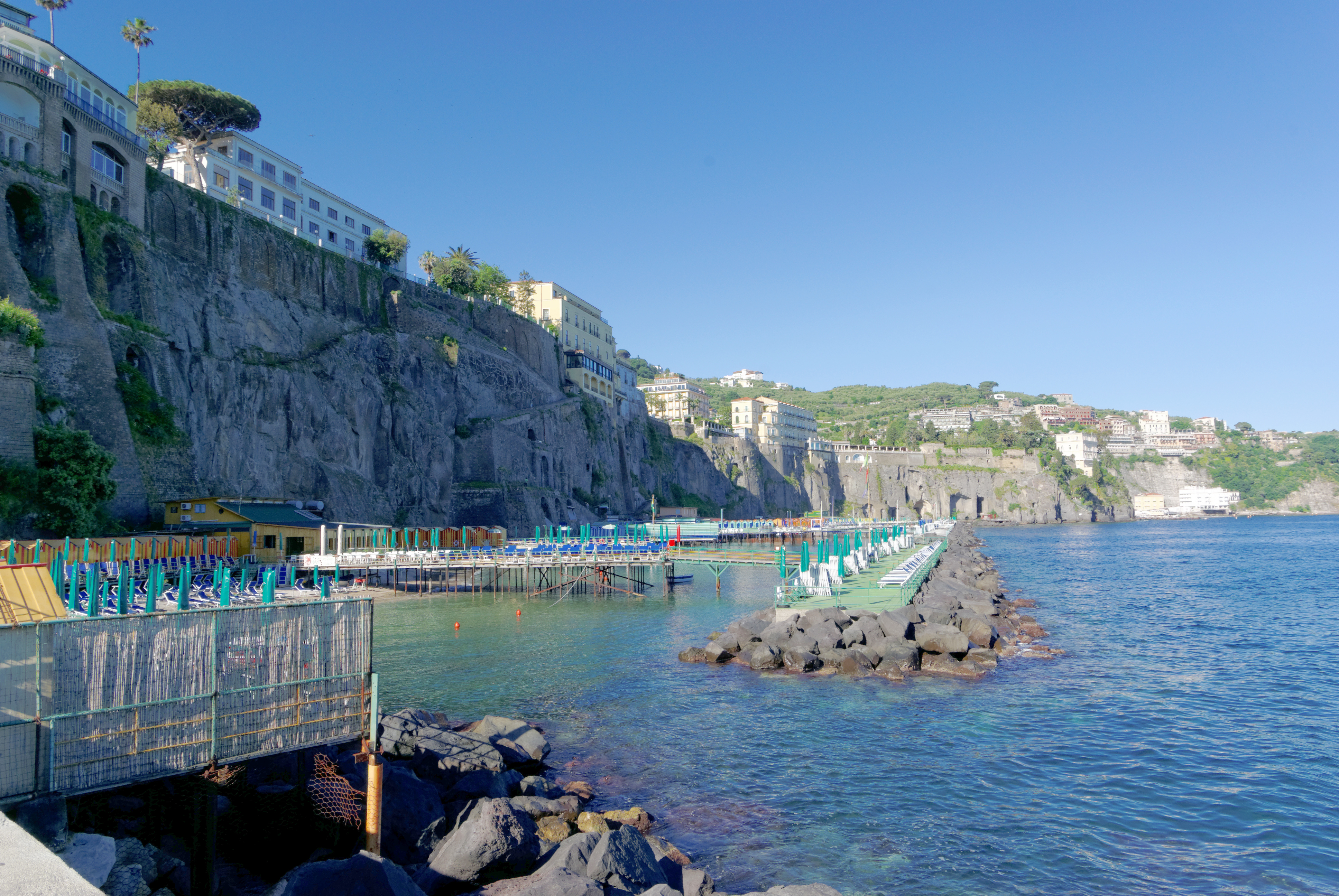 Sorrento, Marina piccola